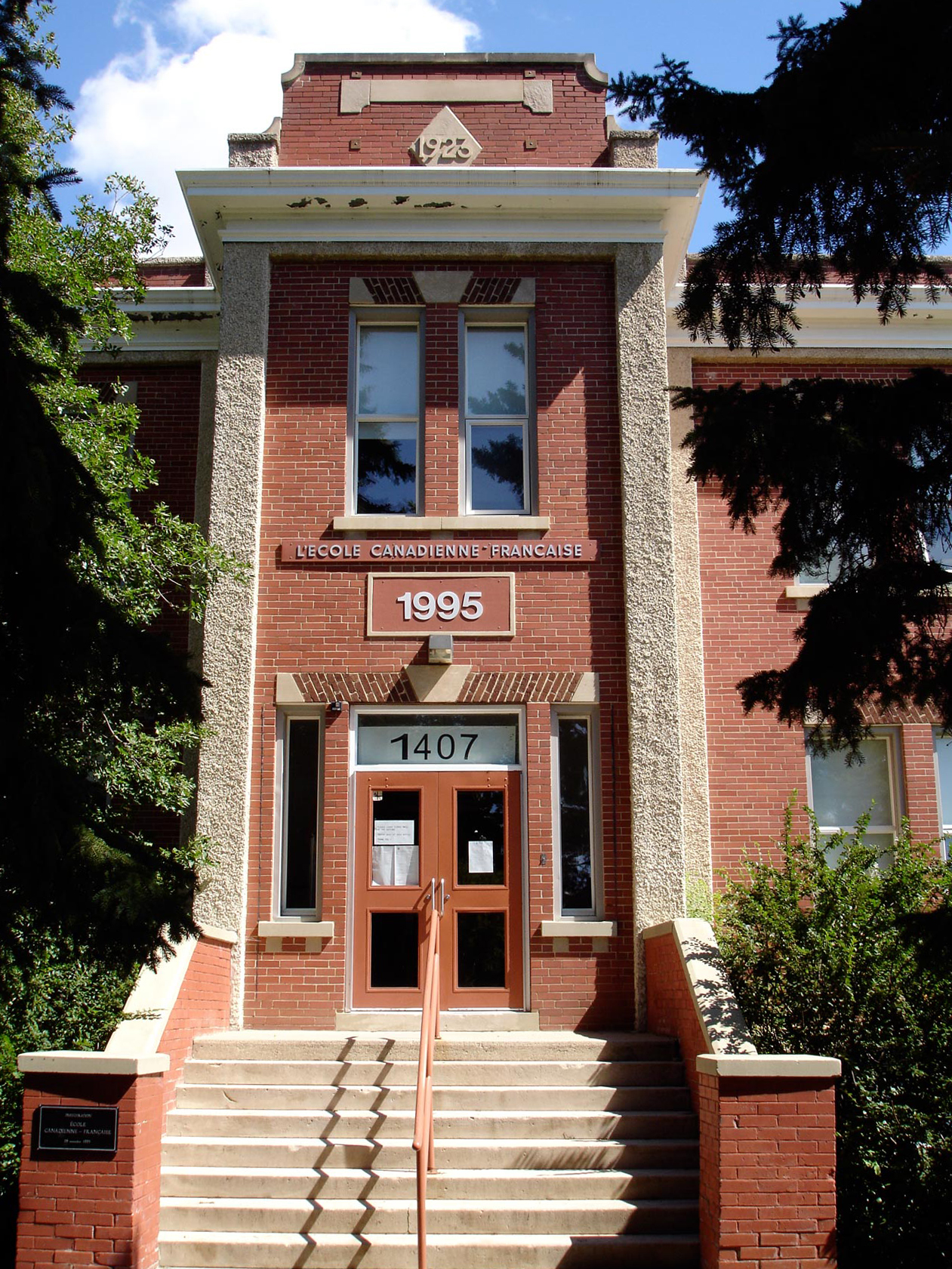 Haultain School was a public elementary school built in 1923. In 1995 it became L'École canadienne-française, a francophone school. It is in the Haultain neighbourhood of Saskatoon, Saskatchewan, Canada.